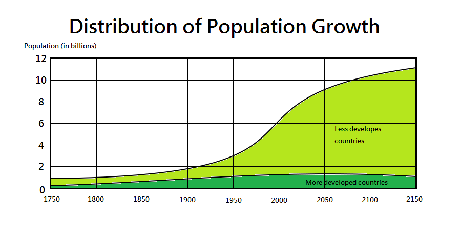 Distribution_of_Population_growth